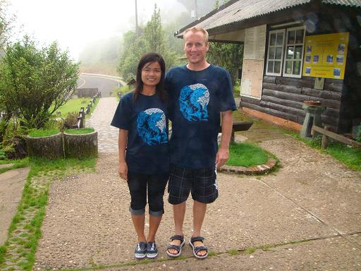 An image of Todd and his fiancée Malisa Kaewlor at Doi Inthanon National Park, Thailand.